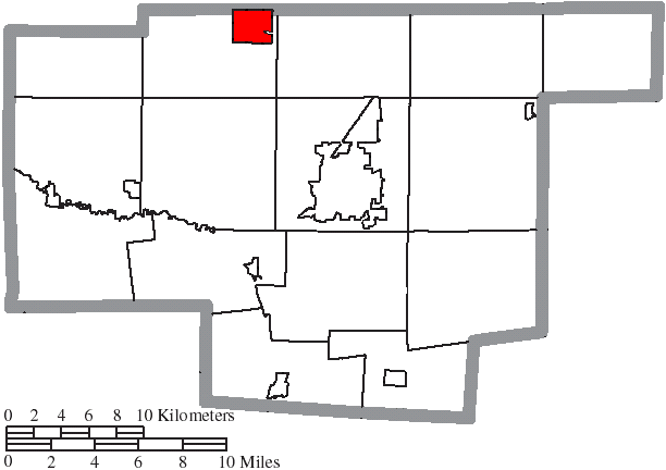 Map of the municipal and township boundaries of Marion County, Ohio, United States, as of the 2000 census, with the location of the village of Morral highlighted. Township borders are shown only in unincorporated areas in order to differentiate incorporated and unincorporated areas more clearly.